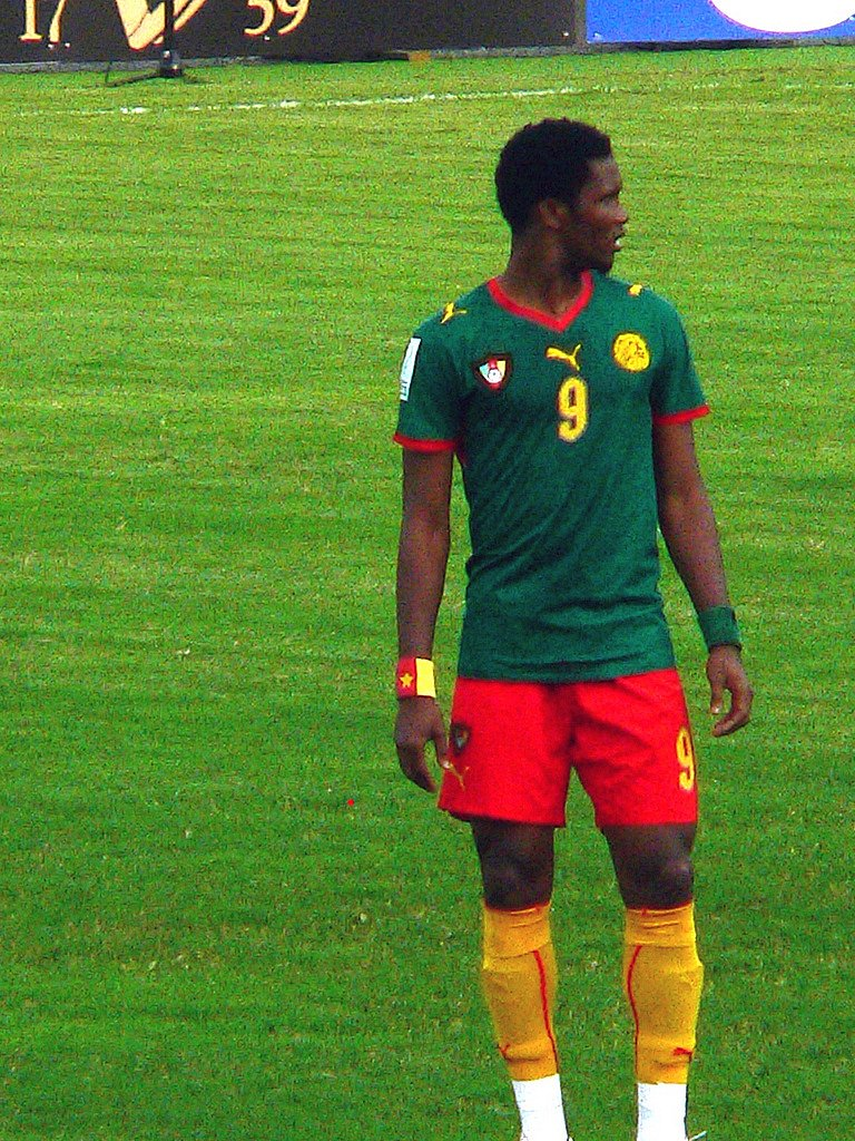 Eto playing for Cameroon